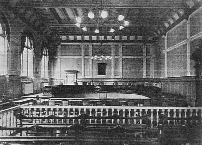 Inside Supreme Court of Judicature of Japanese Empire